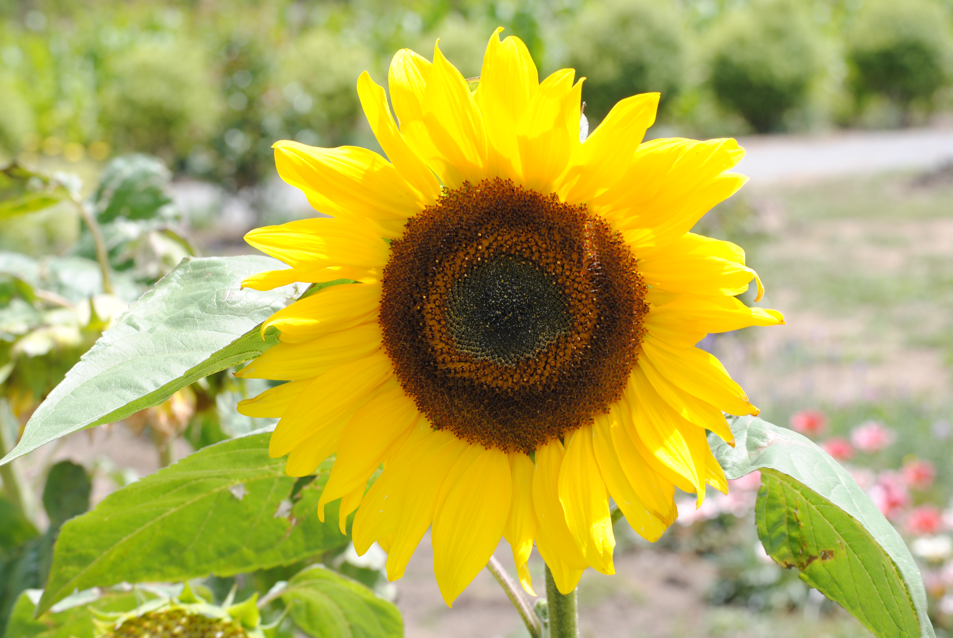 A sunflower in New Zealand